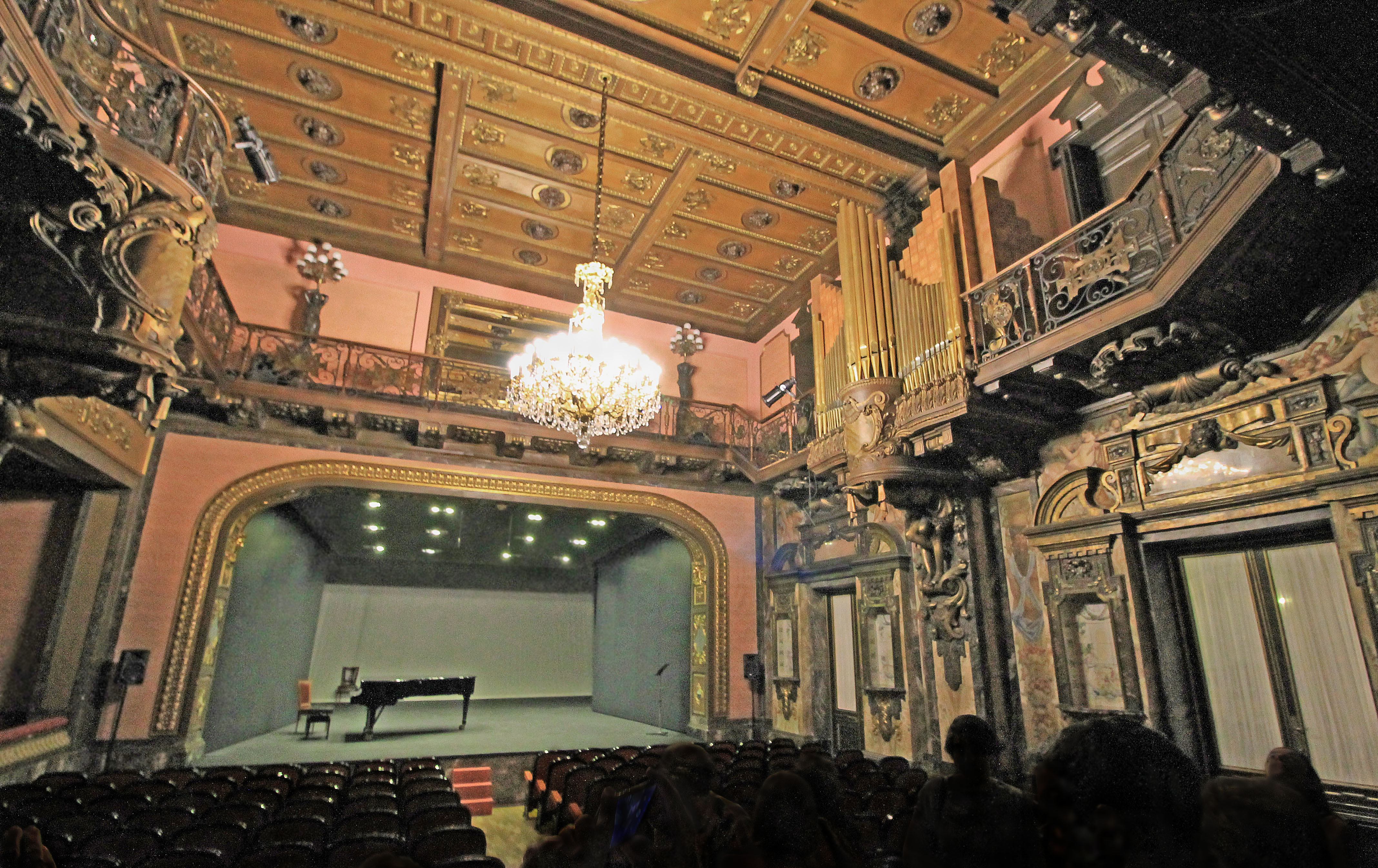 Former ball room of the Bauer Palace (a former mansion) in Madrid (Spain). Designed by Arturo Mélida towards 1870 and transformed into a theatre by José Manuel González Valcárcel in the 1970's.